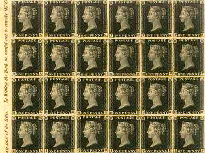 UK Postage stamps, sheet of Penny Black